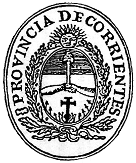 First Coat of Arm of Corrientes Province, Argentina. First published on April 23, 1825.